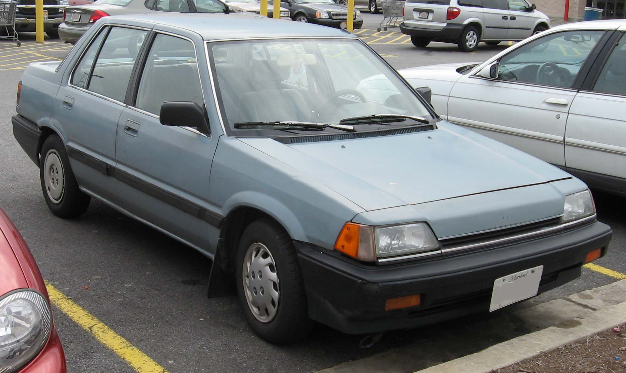 1986-1987 Honda Civic photographed in USA.